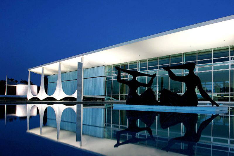 Palace of the Dawn at night, the official residence of the President of Brazil, in Brasília. In the foreground, the sculptural group The Bathers, by Alfredo Ceschiatti.